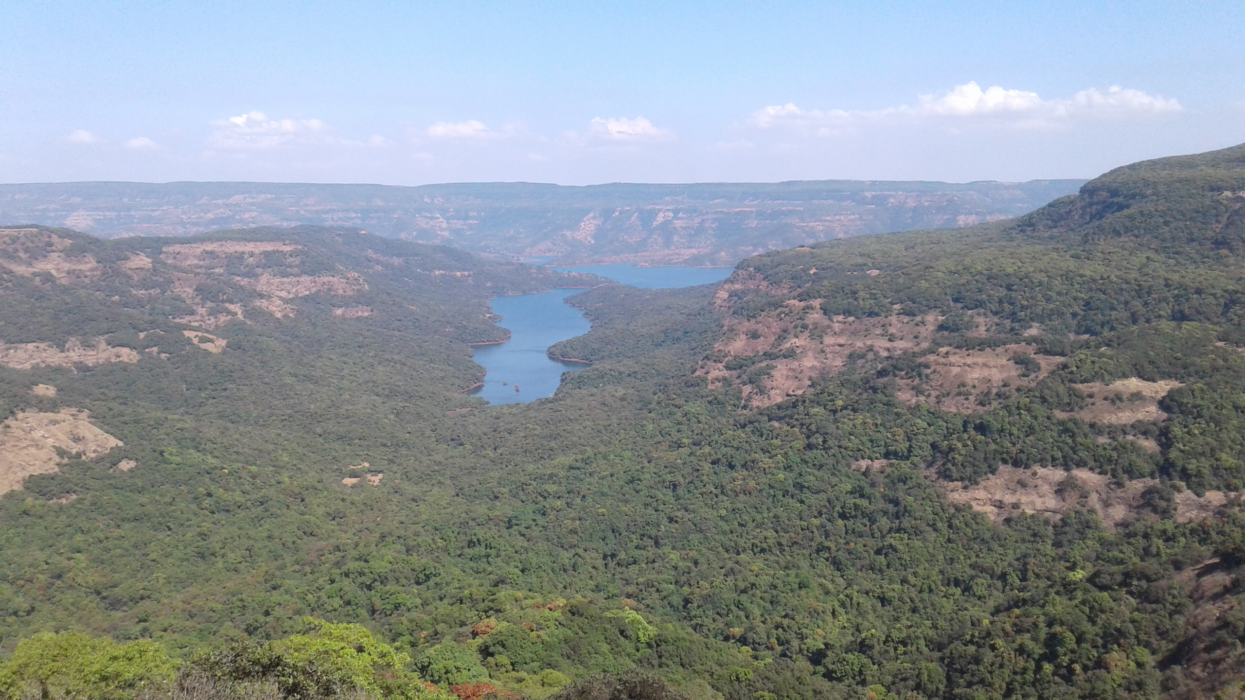 view from vasota fort.